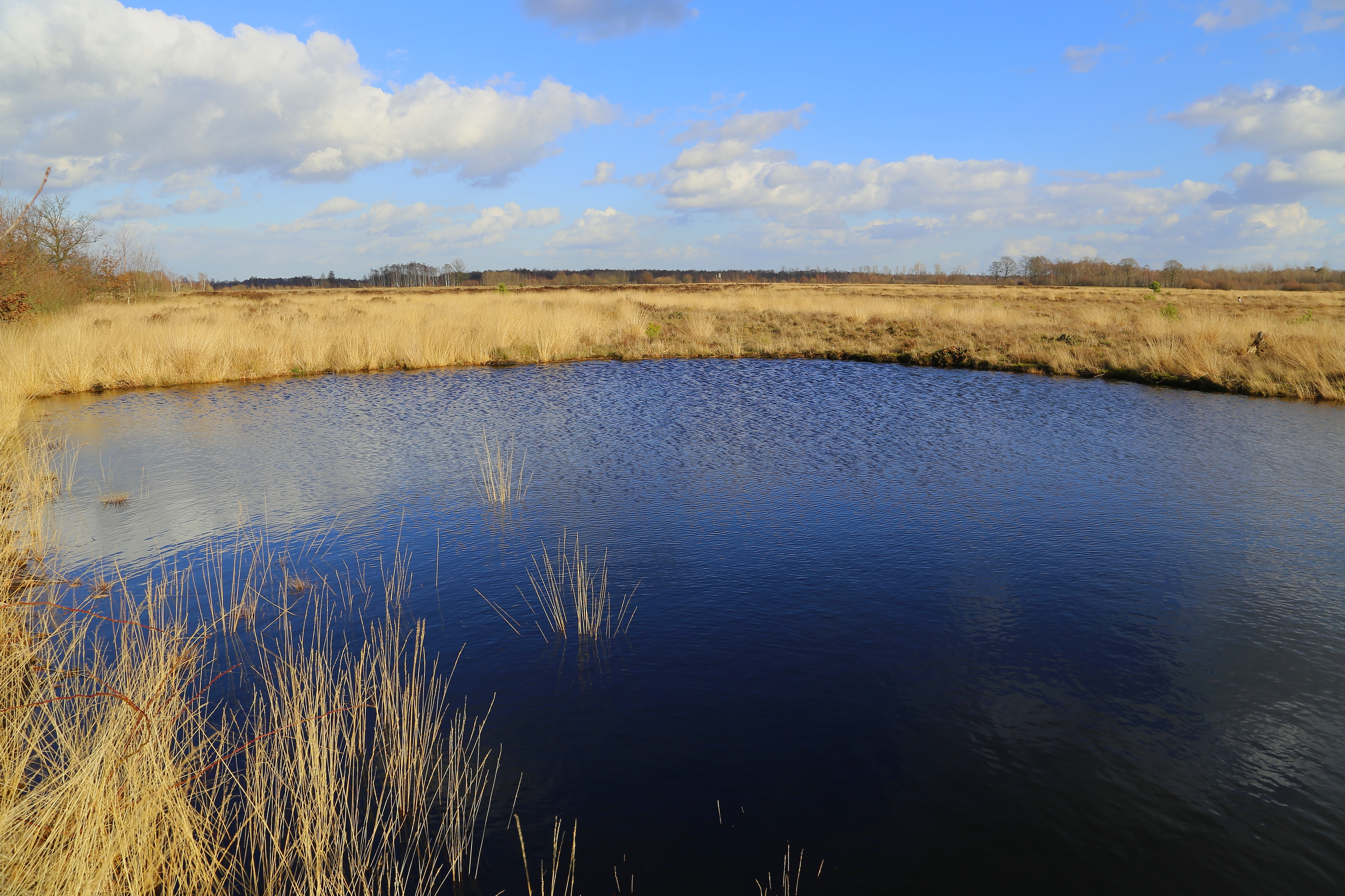 Pond in the nature reserve (Naturschutzgebiet) „Recker Moor“ in Recke, Kreis Steinfurt, North Rhine-Westphalia, Germany.